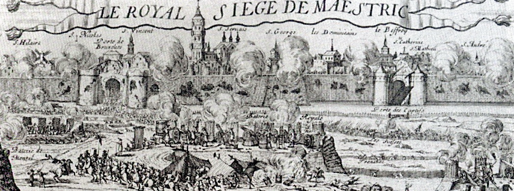 Maastricht, the Netherlands. Detail of a French engraving of the Siege of Maastricht by Vauban and Louis XIV of France in 1673.